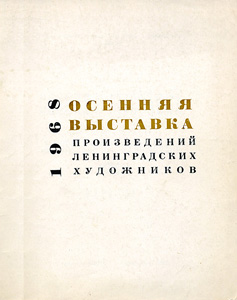 Cover of the catalog of Autumn Exhibition of works by Leningrad artists of 1968